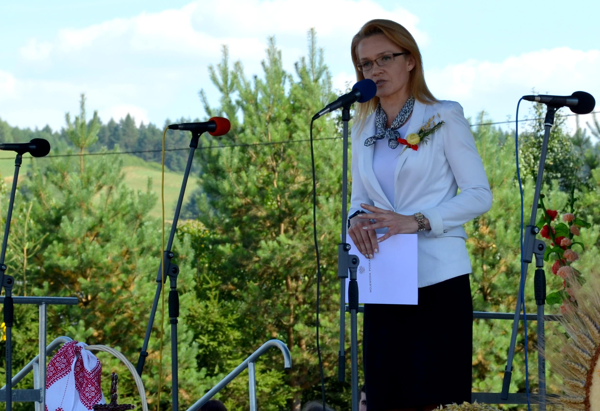 Alicja Wosik